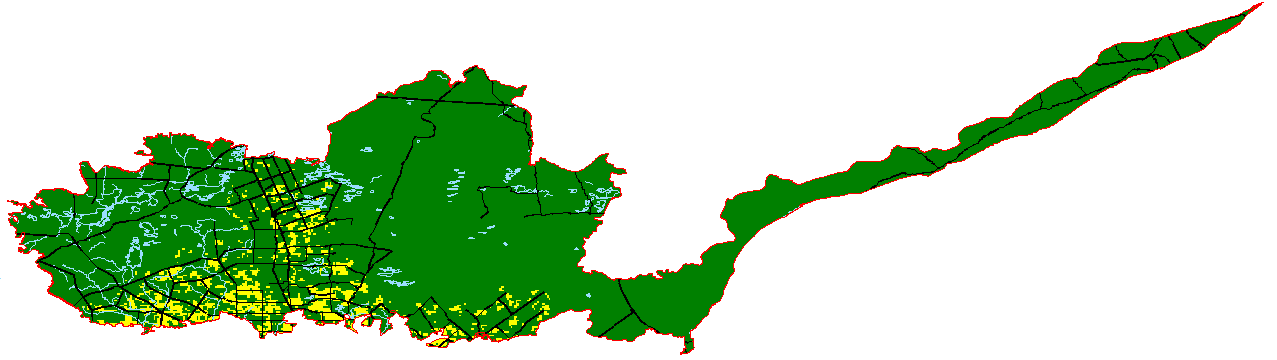 This is a map showing internal detail of the Interim Biogeographic Regionalisation of Australia (IBRA) Eastern Mallee subregion. Areas that are predominantly given over to agriculture are shown in yellow; those that are still native vegetation are green; barren areas are light brown. Roads, railway lines, towns, watercourses and lakes are also shown.